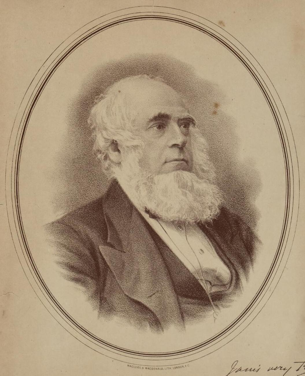 A portrait from the Welsh Portrait Collection at the National Library of Wales. Depicted person: Henry Richard – British politician